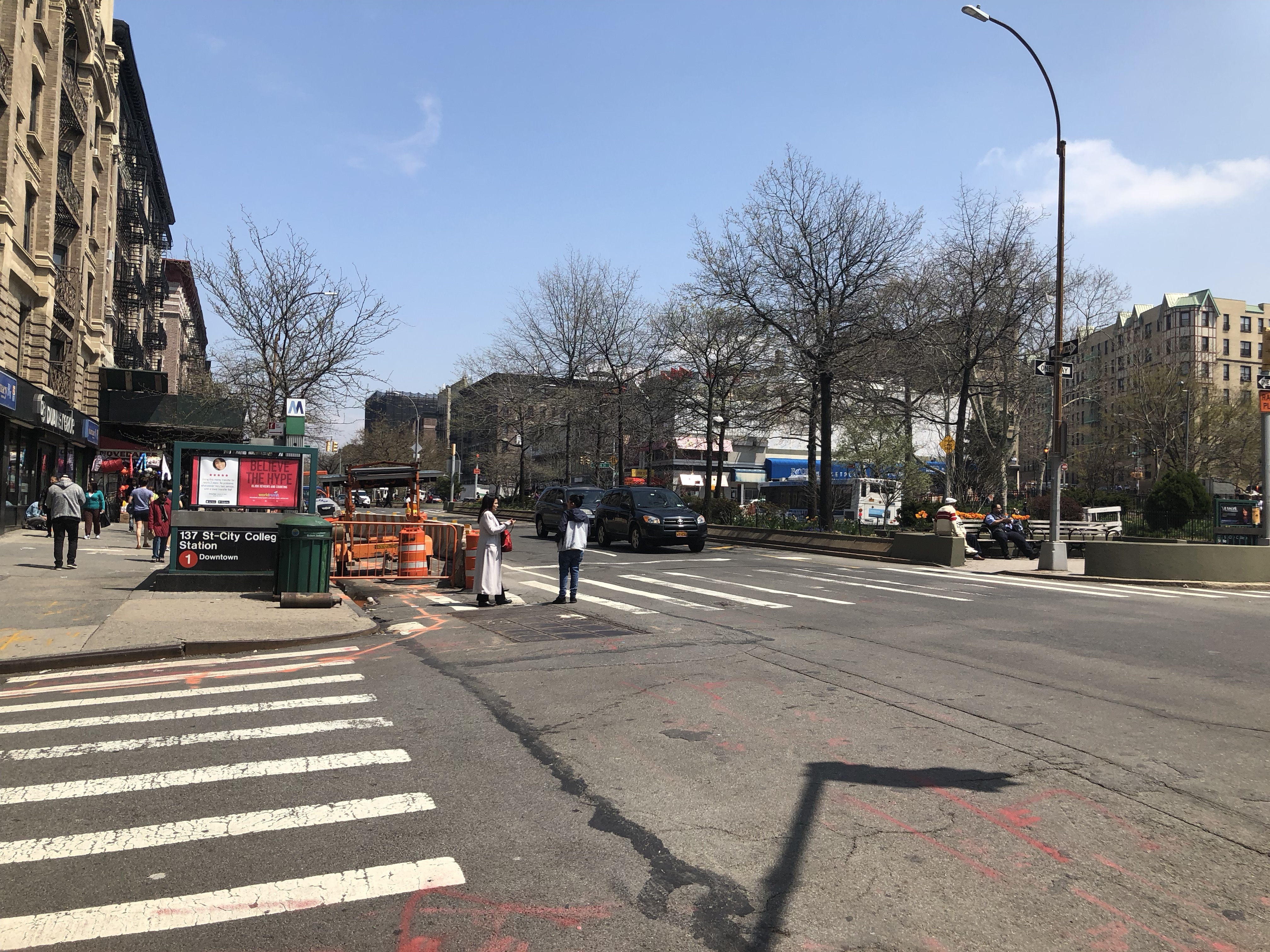 West Harlem 137-broadway North view